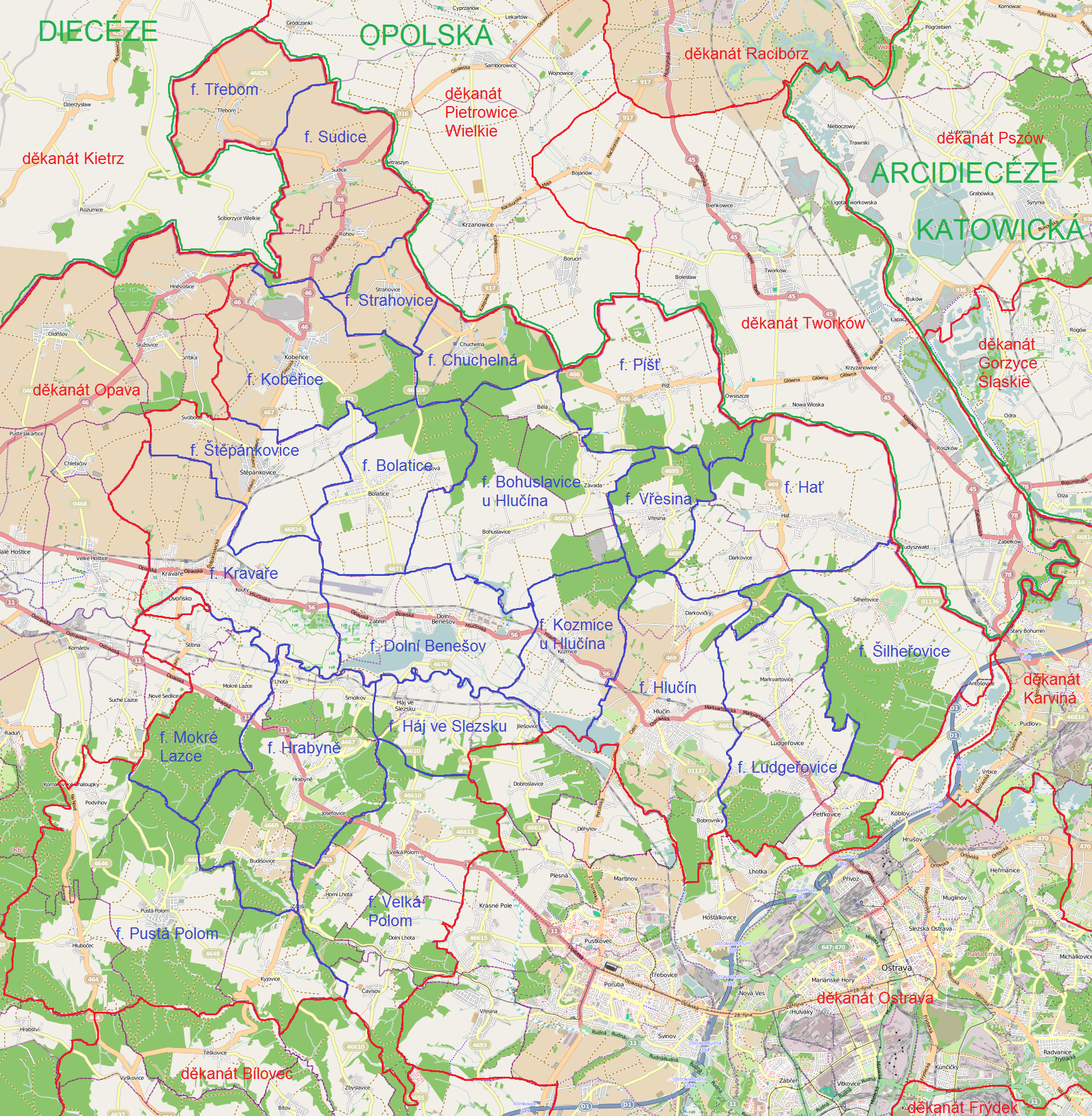 Hlučín Deanery with parish boundaries (2013). This map of Hlučín, Ostravský kraj, Czech Republic was created from OpenStreetMap project data, collected by the community. This map may be incomplete, and may contain errors. Don't rely solely on it for navigation.